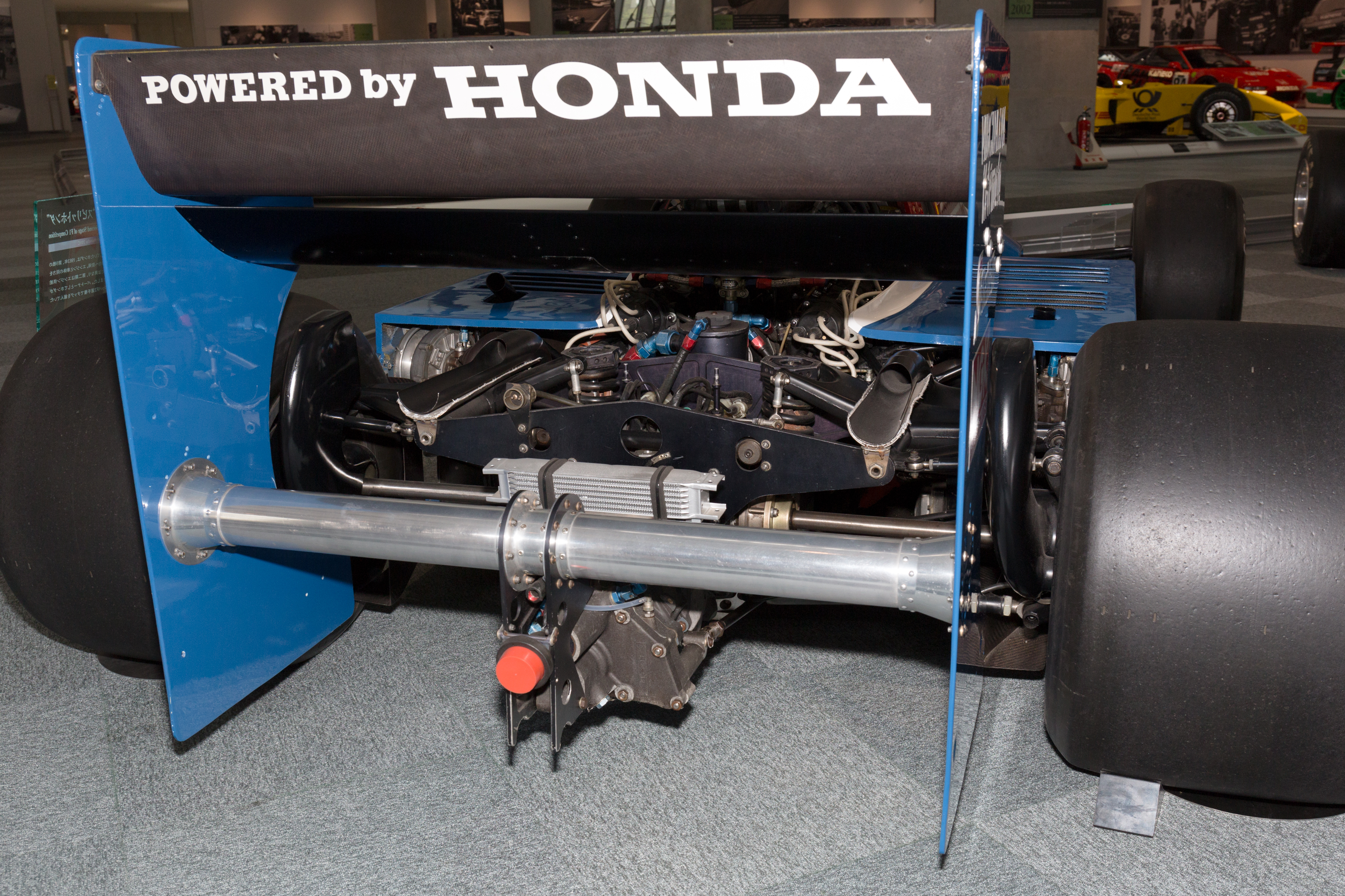 1983 Spirit 201C